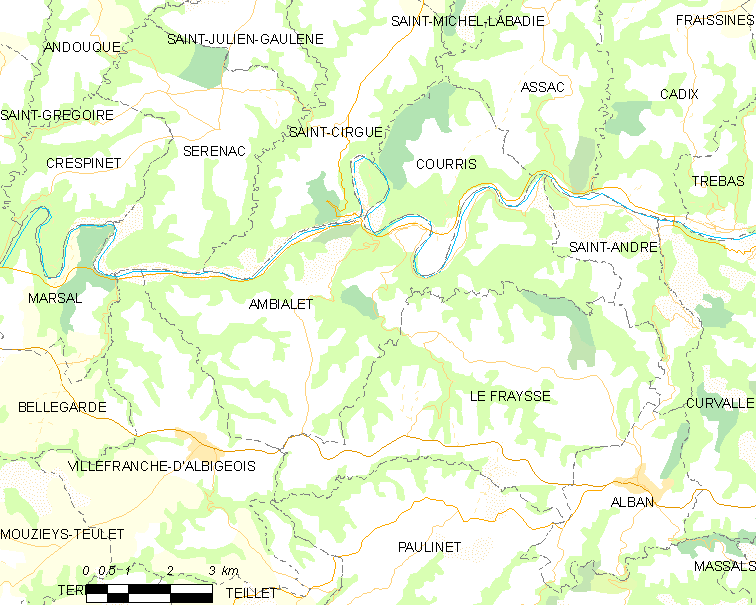 Map of French municipality Ambialet